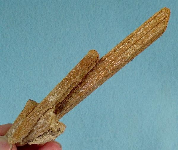 Stibiconite Locality: Catorce (Real de Catorce), Municipio de Catorce, San Luis Potosí, Mexico (Locality at ) Size: 12.3 x 3.0 x 2.8 cm. A cabinet-sized cluster of tan stibiconite pseudomorphing sharp stibnite crystals from Real de Catorce. The original striations of the stibnite are still distinct, as are the sharp terminations. Ex. George Elling Collection.